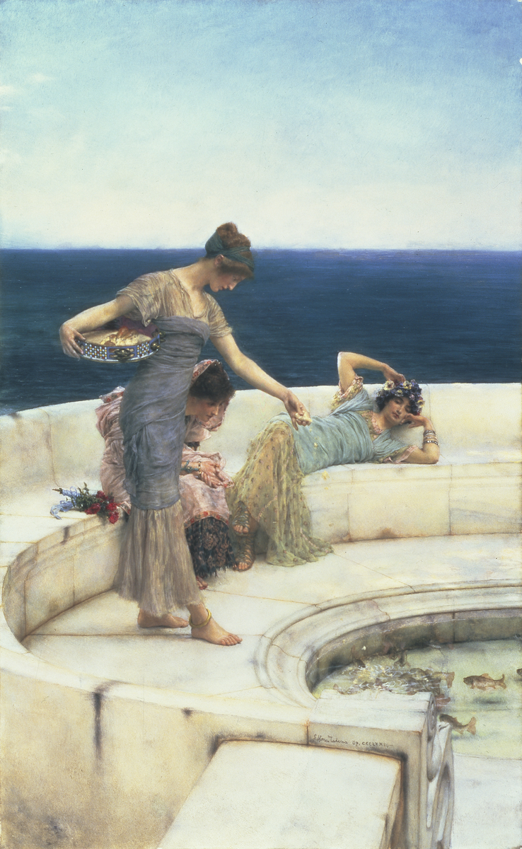 A woman feeding fishes in a marblescape